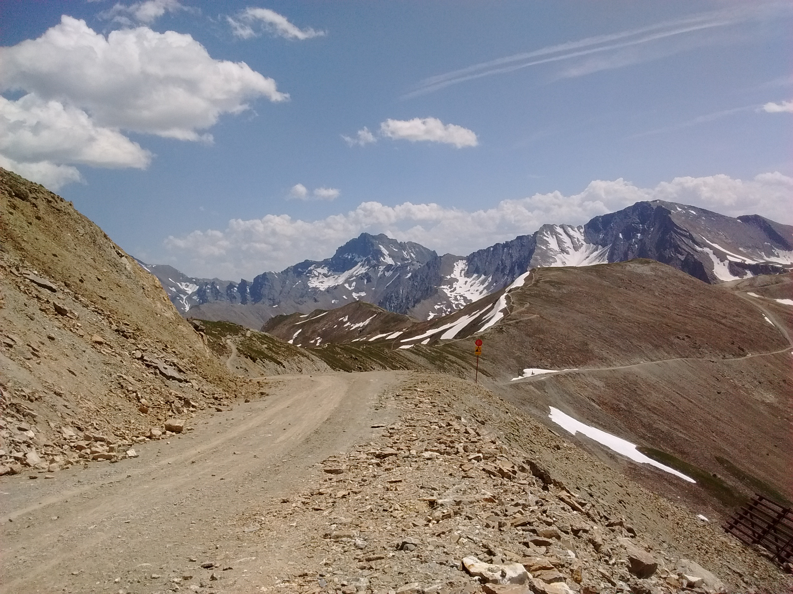 Piz Rots on the right, Stammerspitze in the middle